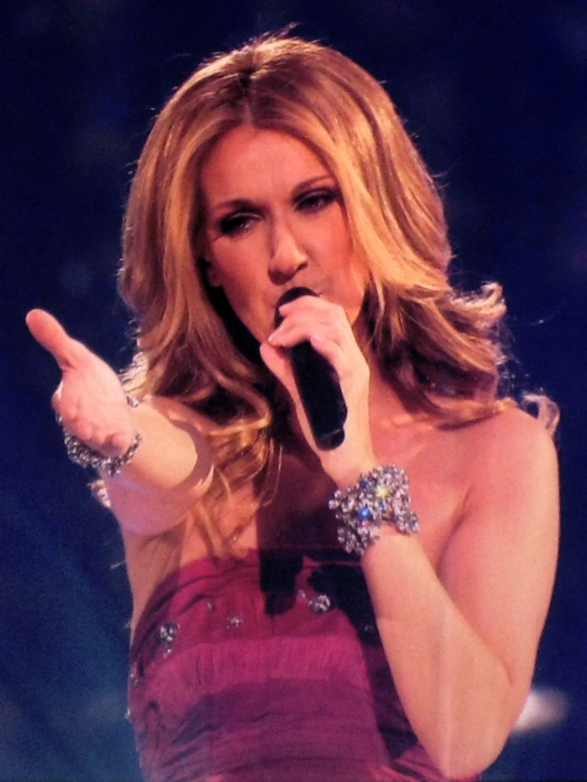 Celine Dion performing "Taking Chances" at Celine Dion 'Taking Chances Tour' Concert @ Bell Centre, Montreal, Canada in August, 2008.